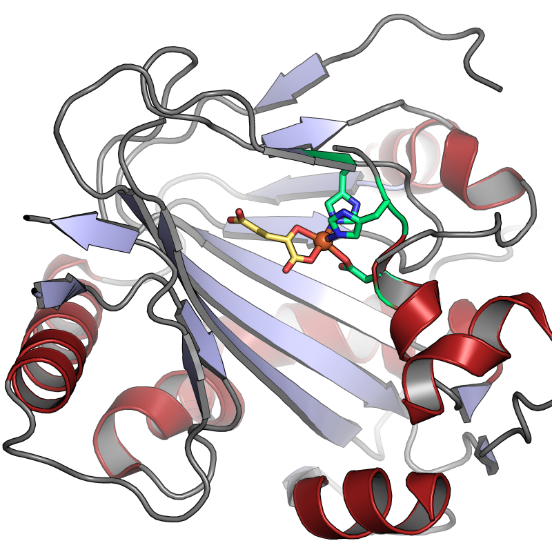 PyMol rendering of human phytanoyl-CoA 2-hydroxylase (PAHX, PhyH) from PDB 2A1X. The Fe(II) cofactor is shown as an orange sphere, coordinated by two histidine and one aspartate residue (shown in green) and by the 2-oxoglutarate cosubstrate (shown in yellow).